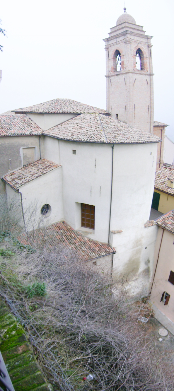 The cathedral of Santa Caterina, Bertinoro, province of Forlì-Cesena, Emilia-Romagna